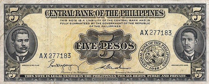 Obverse of the 5-Philippine peso (English series) banknote